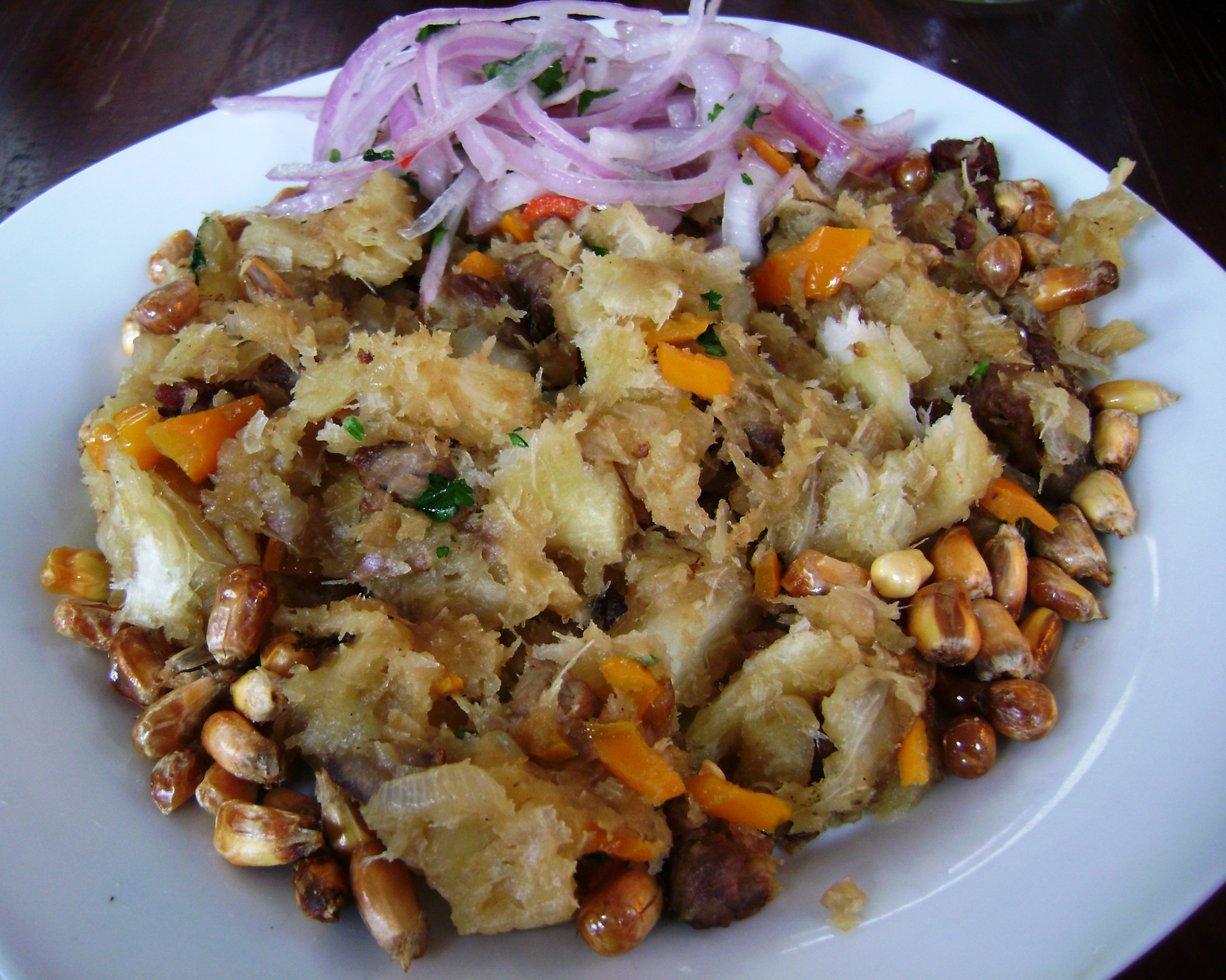 Majado de Yuca is a food based in cured meat, mashed yucca and 'cancha'